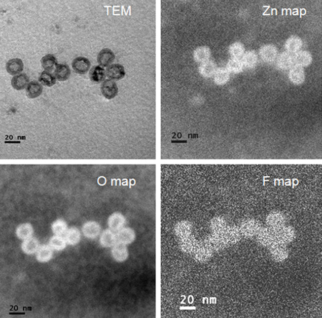 XRD patterns of (a) core UCN (UCn = NaYF4:Yb,Tm) before coating and (b) UCN@ZnO CSNPs. (c) High-resolution TEM and (d) STEM images of CSNPs. (e) TEM and elemental mapping of CSNPs by STEM. The brightness of the image represents the concentration of the element.